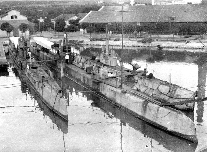 Submarines Tiulen' (centre), Utka (left, with large bridge) and AG-22 (right, with wide hull) in 1920s at Bizerte.